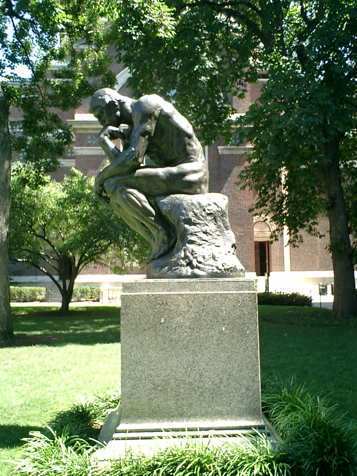 A copy of Auguste Rodin's "The Thinker" at Columbia University in New York.